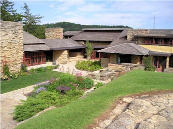 This photograph was taken by K. Murphy.